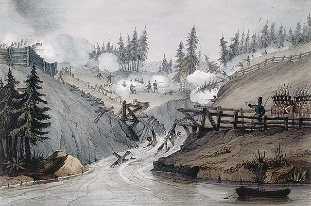 View of Government and Rebel soldiers fighting at a fortified Pass. This is the fifth image in the volume, and was numbered II-5a.